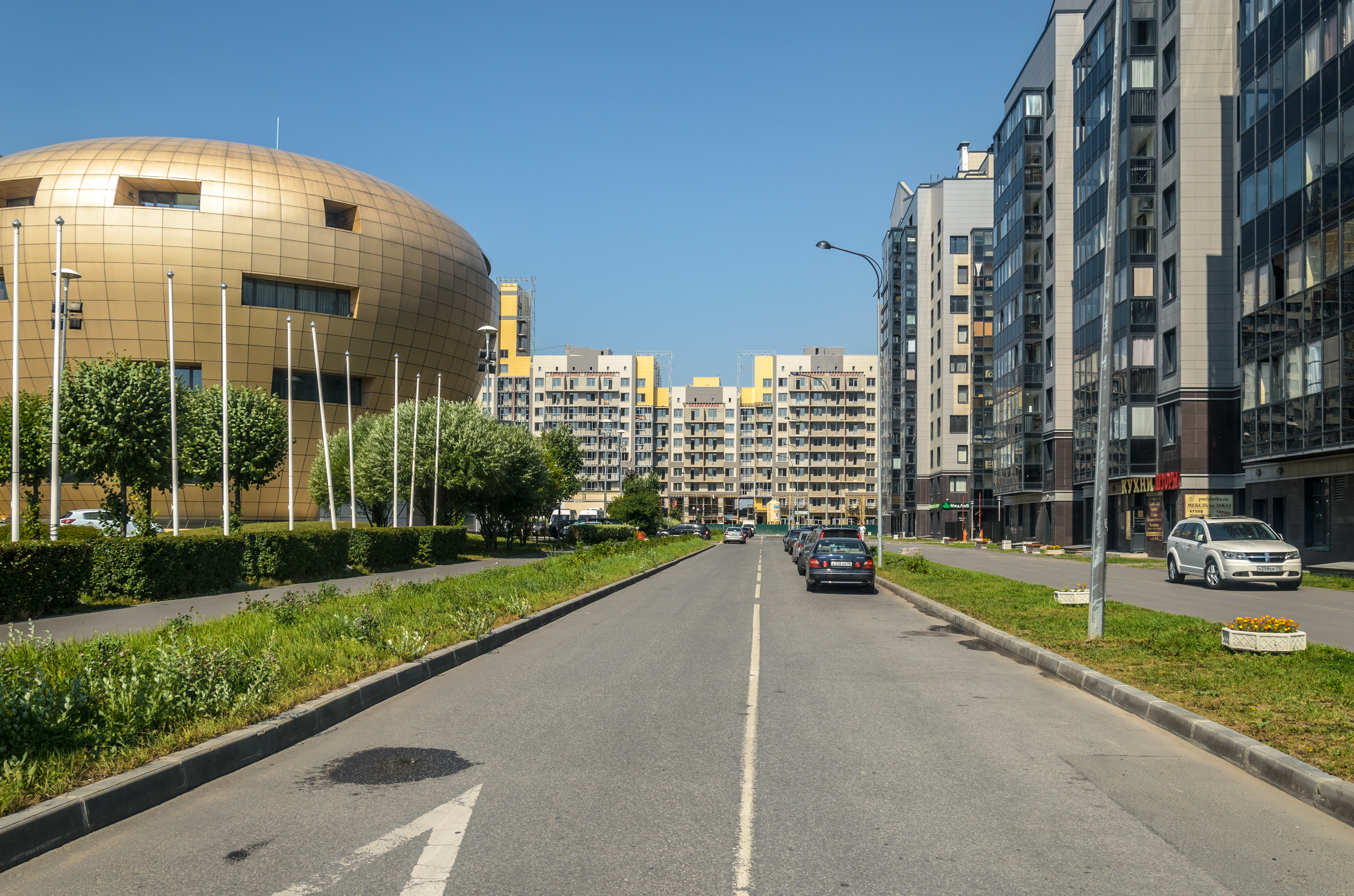 Nameless Drive on Baltic Pearl District in Saint Petersburg